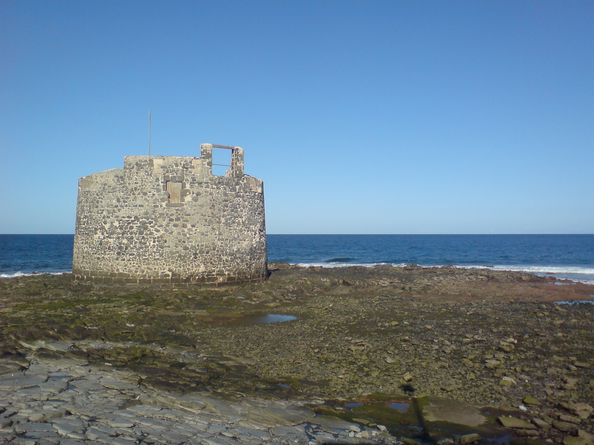 "San Pedro Martir" tower, aka San Cristobal Castle located at Las Palmas de Gran Canaria, Canary Ilands (Spain).